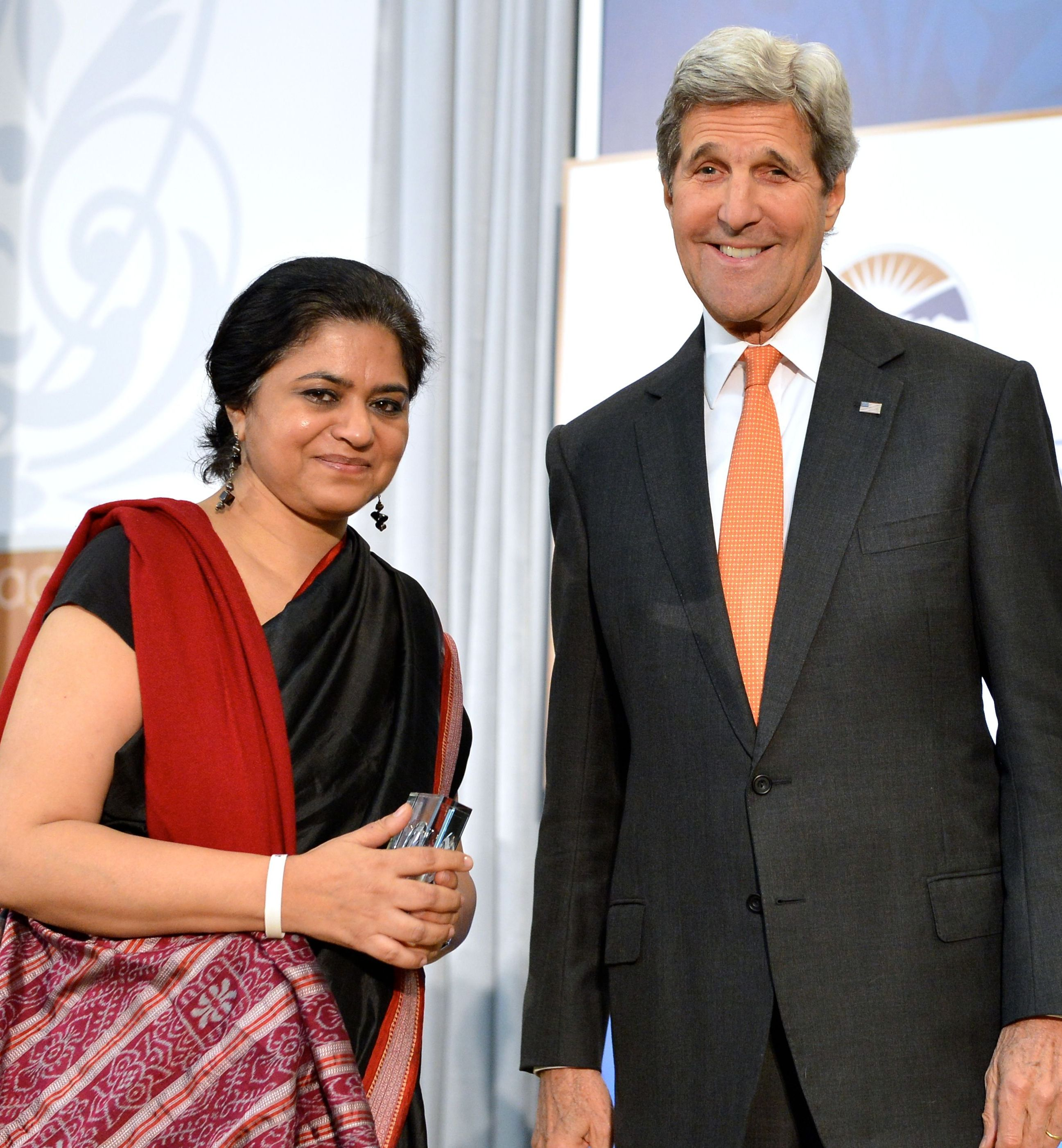 International Women of Courage Awards 2016